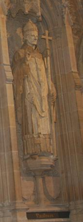 Statue of Paulinus of York. Interior of Rochester Cathedral. I took this picture May 2006.